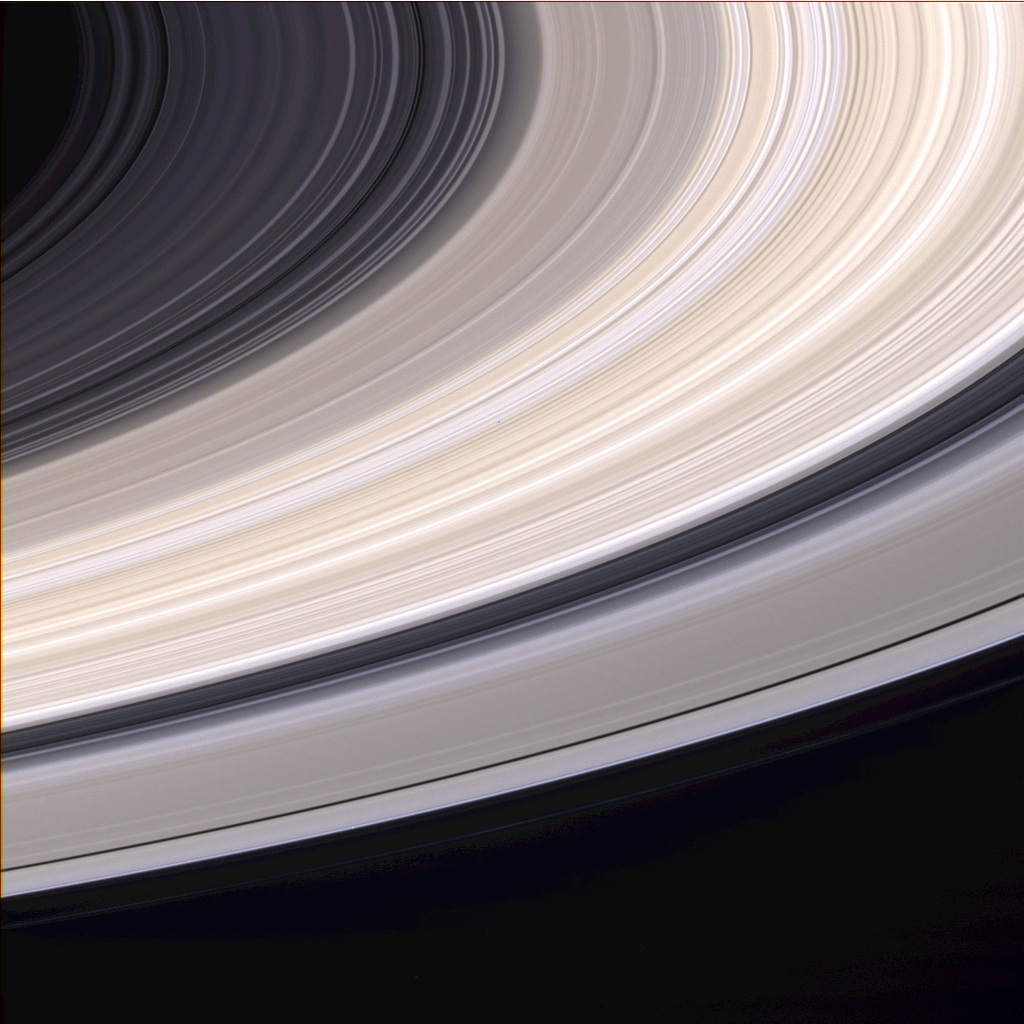 Nine days before it entered orbit, Cassini spacecraft captured this exquisite natural color view of Saturn's rings. The images that make up this composition were obtained from Cassini's vantage point beneath the ring plane with the narrow angle camera on June 21, 2004, at a distance of 6.4 million kilometers (4 million miles) from Saturn. The image scale is 38 kilometers (23 miles) per pixel. The brightest part of the rings, curving from the upper right to the lower left in the image, is the B ring. Many bands throughout the B ring have a pronounced sandy color. Other color variations across the rings can be seen. Color variations in Saturn's rings have previously been seen in Voyager and Hubble Space Telescope images. Cassini's images show that color variations in the rings are more pronounced in this viewing geometry than they are when seen from Earth. Saturn's rings are made primarily of water ice. Since pure water ice is white, it is believed that different colors in the rings reflect different amounts of contamination by other materials such as rock or carbon compounds. In conjunction with information from other Cassini instruments, Cassini images will help scientists determine the composition of different parts of Saturn's ring system.